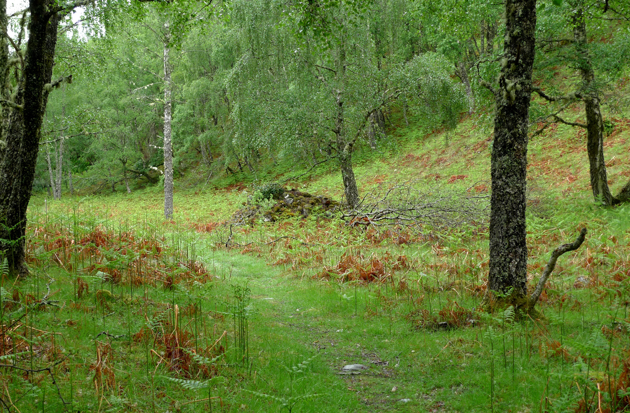 The cairn which marks the site of the Glenmoriston footprints, photographed in June, 2010.